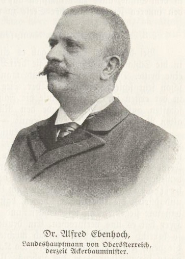 Alfred Ebenhoch (1855–1912), Catholic politician of the Christian Social Party, Governor of Upper Austria (1895–1907), Minister of Agriculture (1907–1908).